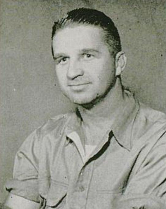 University of Kentucky baseball and assistant basketball coach Harry Lancaster from the UK “Kentuckian” yearbook